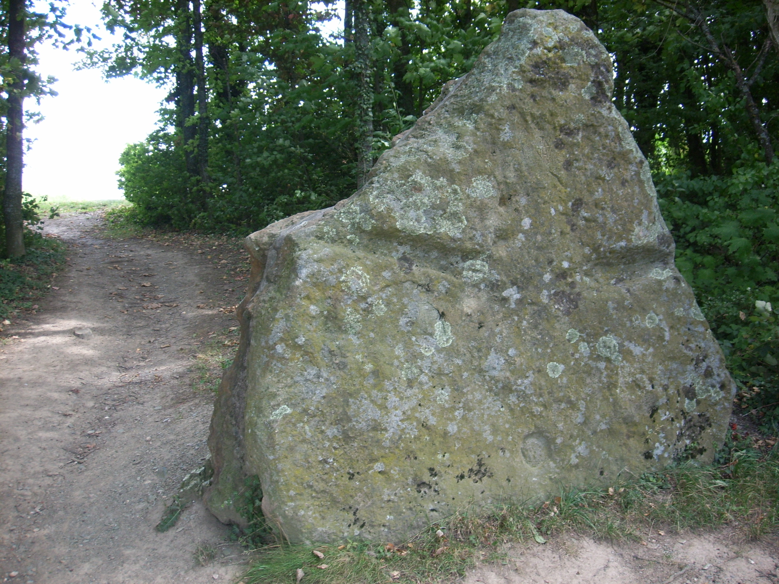 Hinkelstein in Trittenheim. (Foto Ruben A. Koman, 2011)